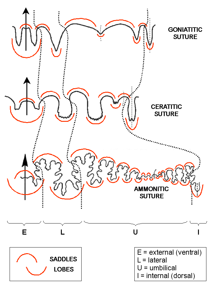 Uploaded an English version of File:Ammonites suture terminology.PNG